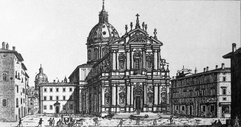 Piazza e chiesa di S. Andrea della Valle acquaforte 1665